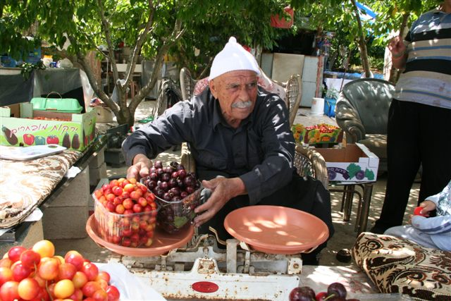 A cherrie stand in Majdal Shams